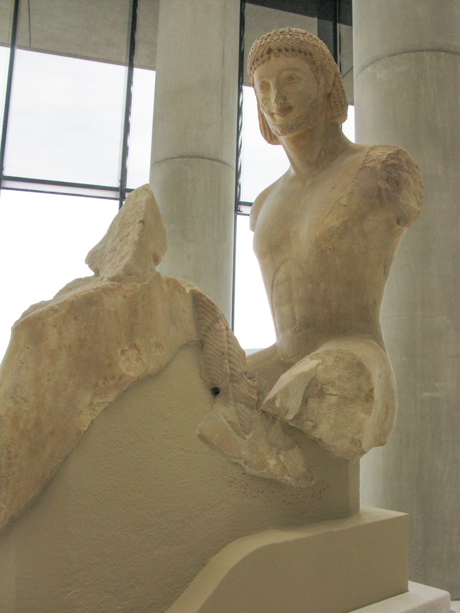 Young rider, known as the "Rampin Rider" or the "Rampin Head". Marble.